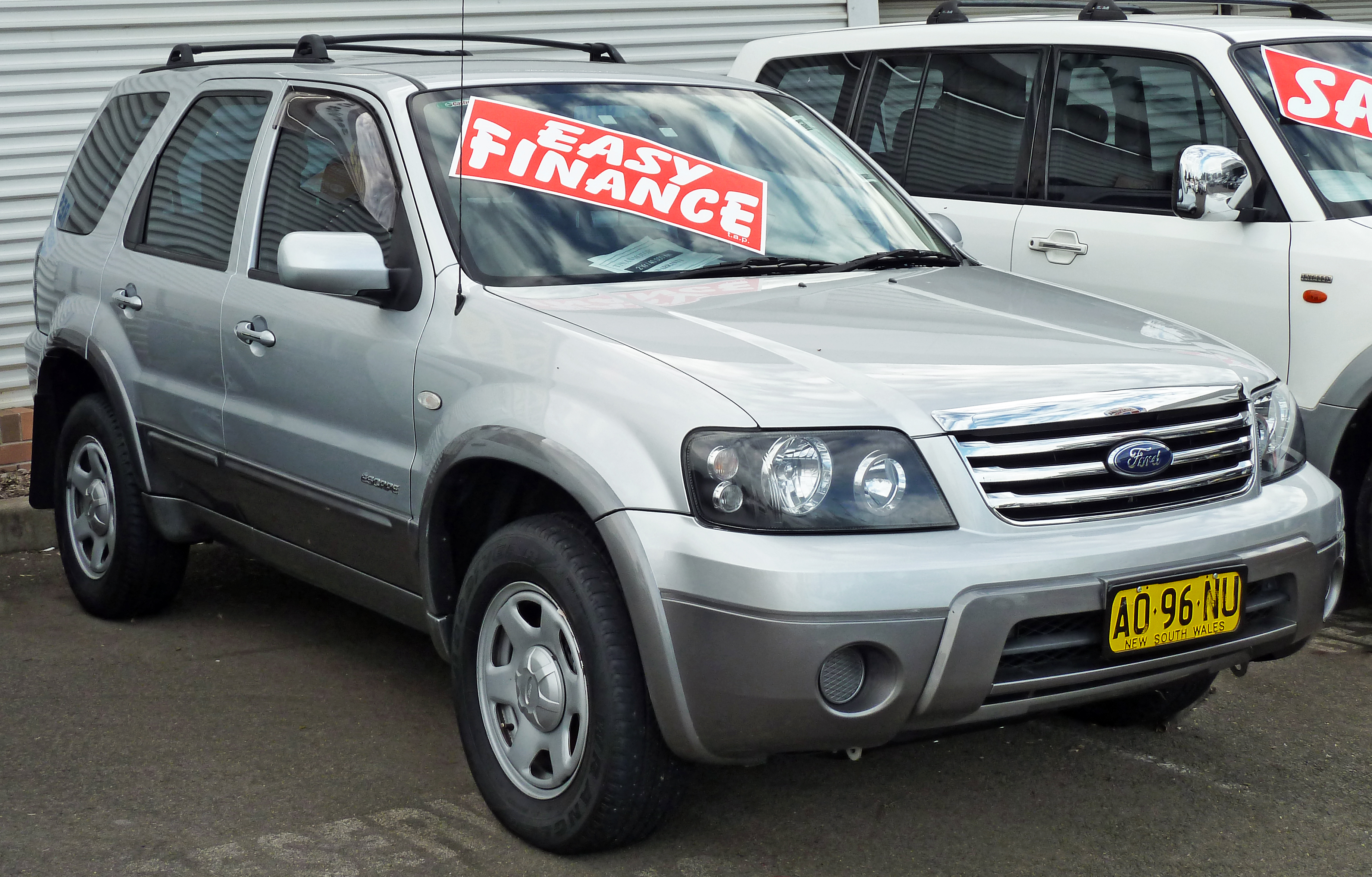 2007 Ford Escape (ZC) XLS wagon. Photographed at Tynan Motors, Kirrawee, New South Wales, Australia.